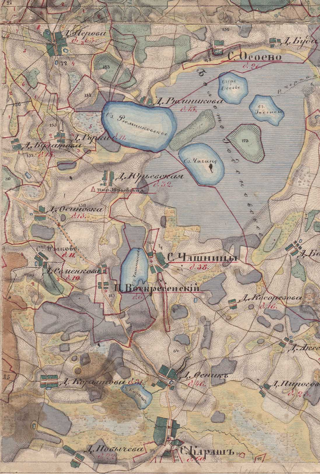 Village Perovo on Mende Maps 1857, (now Rostov Raion, Yaroslavl Oblast)